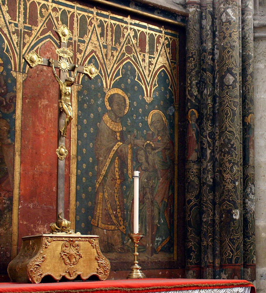 The founder of the "Gero Crucifix" doing a miracle: Arcbishop Gero heals a crack in the wood by putting a Host in it and praying, altarpiece, 11. century, Cologne Cathedral, Germany author: Elke Wetzig (elya) date: 2006-09-03